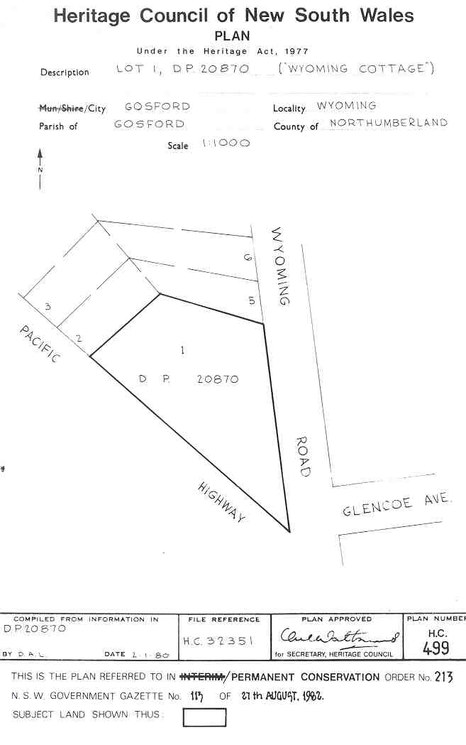 Wyoming Cottage: PCO Plan Number 213